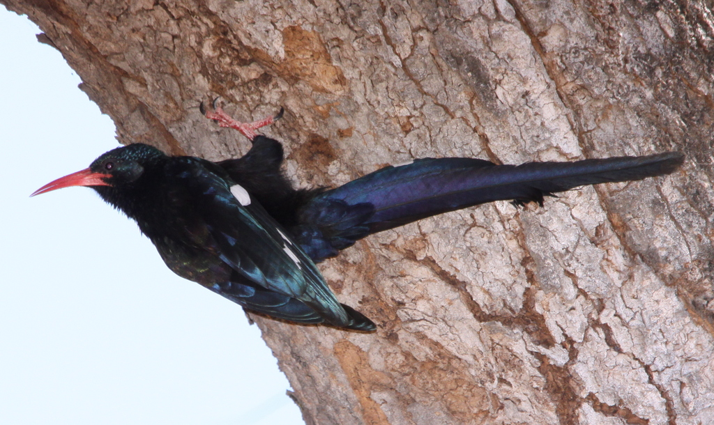 Green Wood Hoopoe (Phoeniculus purpureus), Mapungubwe National Park, Limpopo, South Africa.